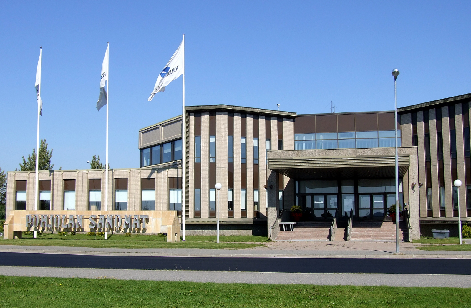 The headquarters of the Finnish newspaper Pohjolan Sanomat in Kemi, Finland. The building was completed in 1983.